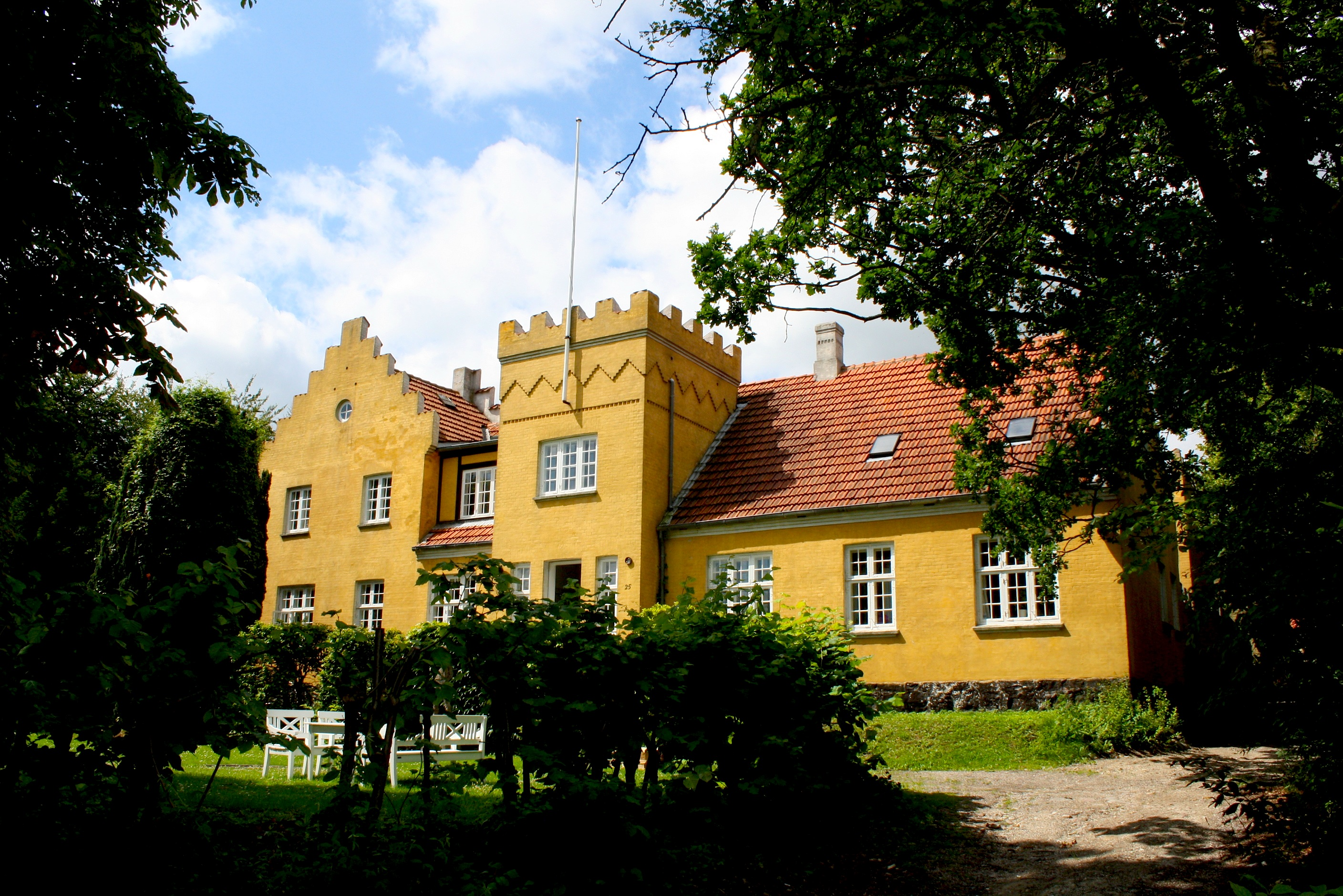 "The Kastellet", former house of Gustav Wied, Roskilde, DenmarkDansk: "Kastellet", Gustav Wieds hus i Roskilde, Danmark